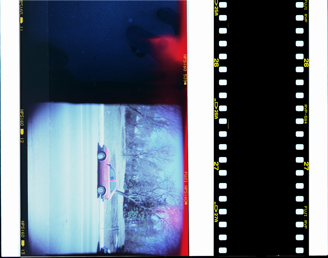 A scan comparing the size of medium format film to 35mm film Created on October 27, 2005, by myself, Clngre.